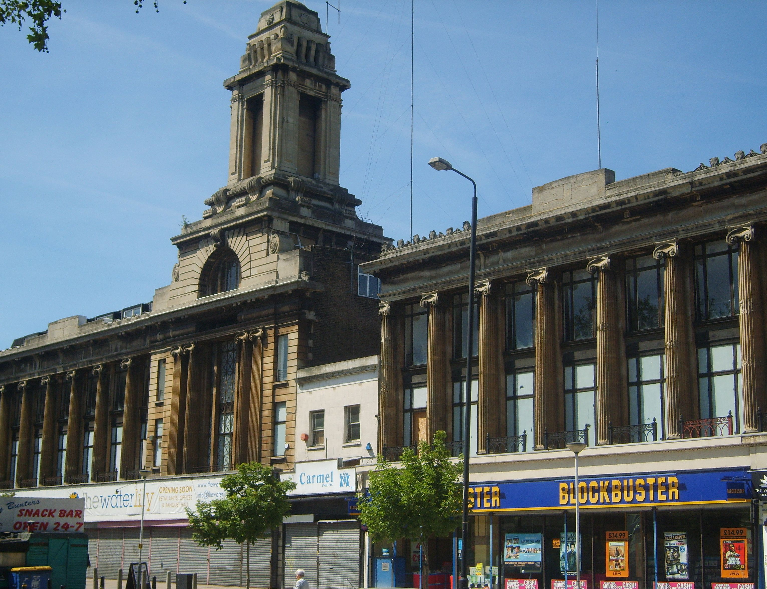 Wickham's Department Store Mile End Road, Stepney, London, E1